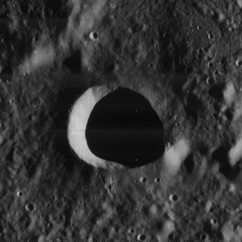 Couder, on the moon.